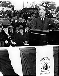 President Franklin D. Roosevelt speaking at the dedication of the new post office in Poughkeepsie.